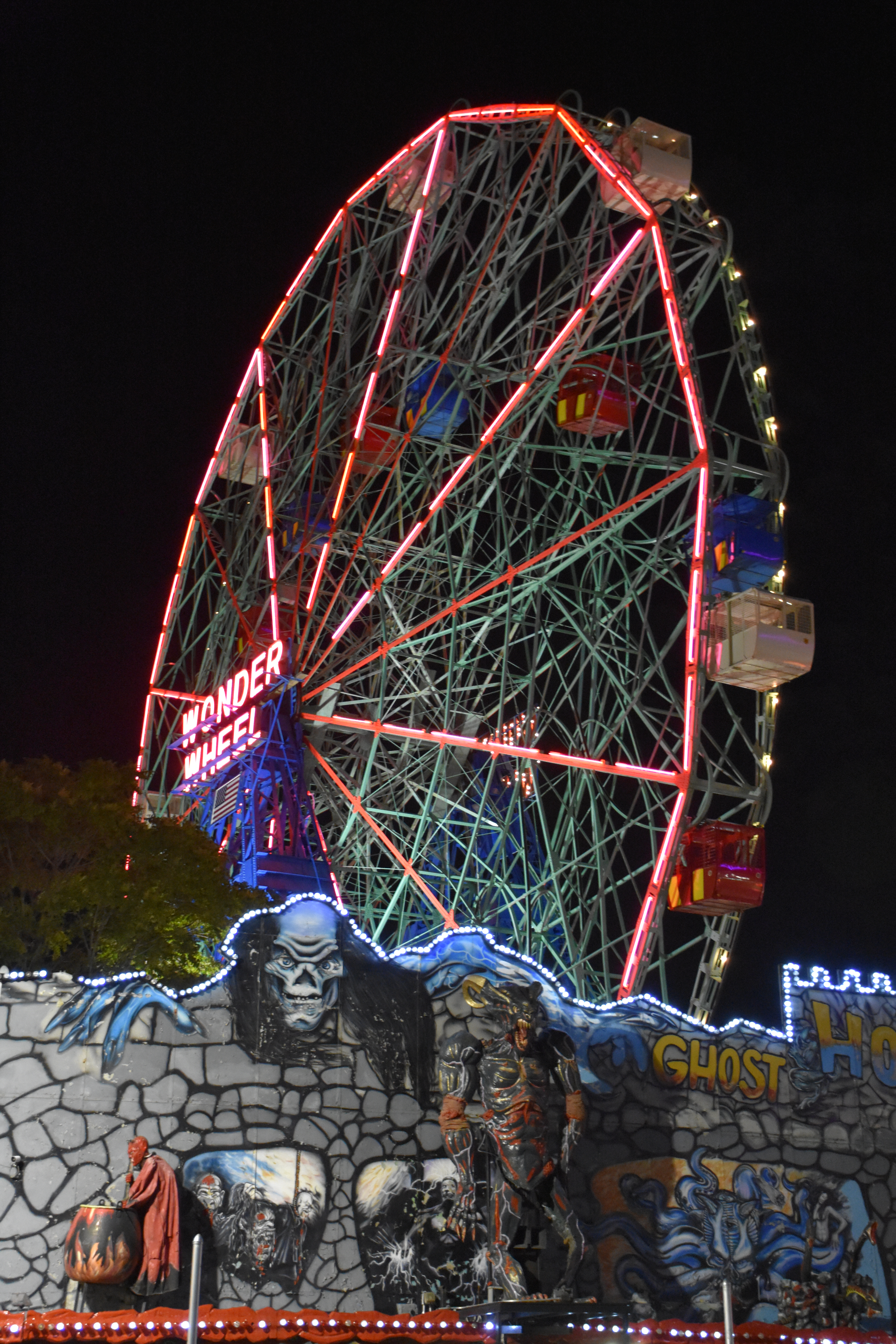 The Wonder Wheel of Coney Island, New York City in June 2016